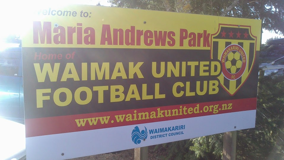 The sign outside Maria Andrews, Rangiora, home to .